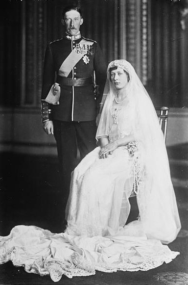 Henry Lascelles, 6th Earl of Harewood and Mary, Princess Royal and Countess of Harewood